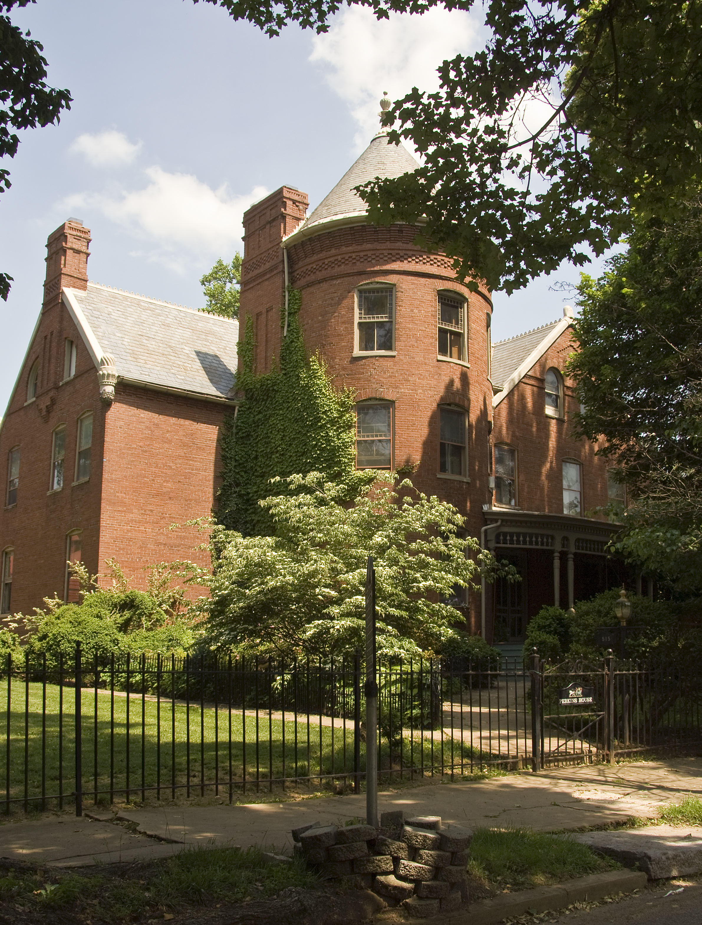 Perkins House, South Mildred Street, Charles Town, West Virginia USA